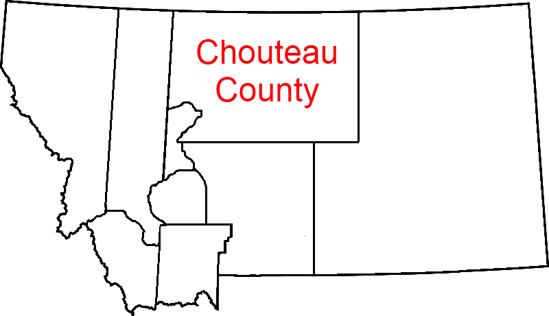 Map of the counties of Montana as they existed from 1865 to 1890. Chouteau County is noted.